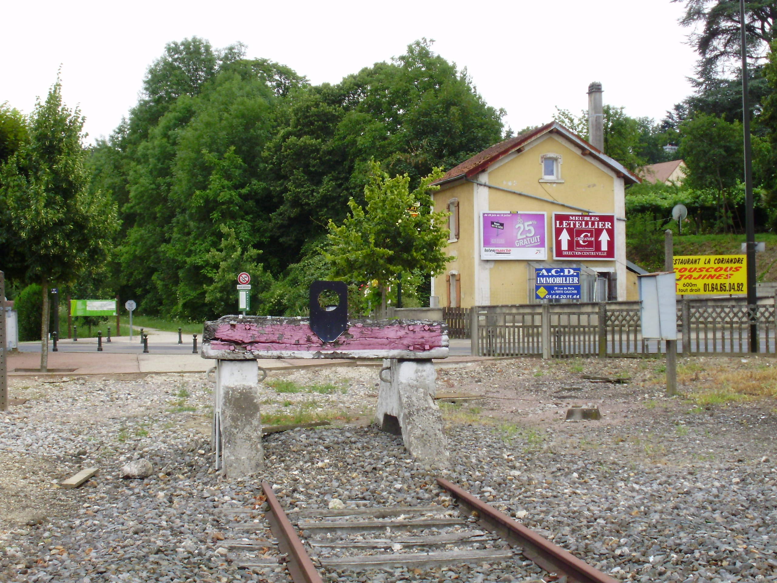 La Ferté-Gaucher station, Seine-et-Marne, France (buffer stop of the former line coming from Coulommiers)